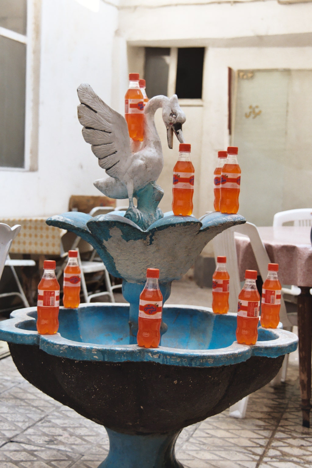 An Iranian style small fountain in the yard of a Kebab shop (Jigaraki) in Tajrish Bazar of Tehran, taken by Elke Parsa in 2004.